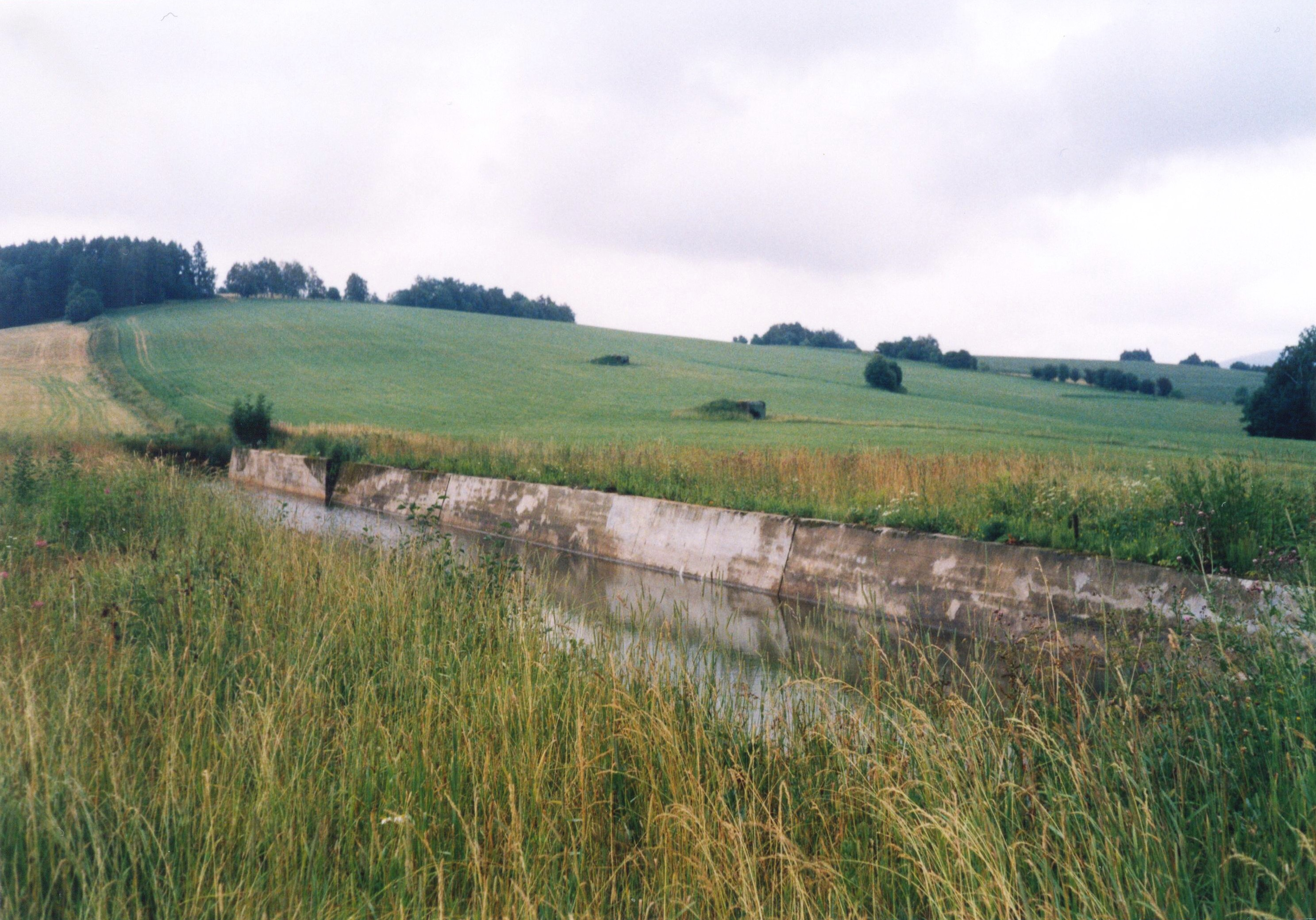 Anti-tank trench near to K-S 14 U cihelny infantry casemate, Ústí nad Orlicí District, Czech Republic